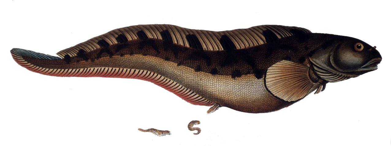 Zoarces viviparus